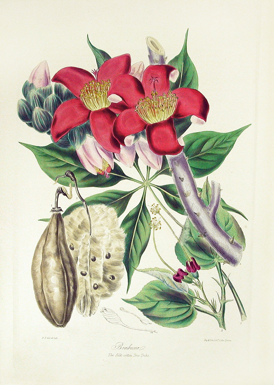 The Silk-Cotton Tree Tribe